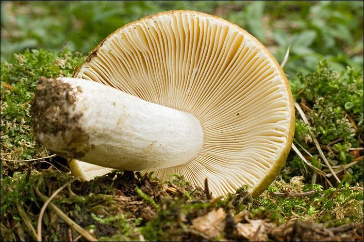 Russula ochroleuca (Pers.) Fr. Image location: Mount Kobariški Stol ridge, East Julian Alps, Posočje, Slovenia Code: Bot_444/2010_IMG1872 Habitat: Open mixed forest, flat terrain, under a Picea abies, among mosses and Picea needles; calcareous bedrock but possibly somewhat acid soil, fairly humid place, in total shade, partly protected from direct rain by tree canopies, average precipitations ~ 3.000 mm/year, average temperature 7-9 deg C, elevations 650 m (2.100 feet), alpine phytogeographical region. Substratum: soil. Place: West Hlevišče flats, north slopes of Mt. Kobariški Stoil ridge, East Julian Alps, Posočje, Slovenia EC Comments: Growing solitary, pileus diameter about 7 cm (2.7 inch); flesh firm; SP light ocher; cap skin peeling easily. Nikon D700 / Nikkor Micro 105mm/f2.8 [admin – Tue Feb 08 12:34:58 +0000 2011]: Changed location name from ‘Mount Kobariški Stol ridge, East Julian Alps, Posočje, Slovenia.’ to ‘Mount Kobariški Stol ridge, East Julian Alps, Posočje, Slovenia’ Recognized by sight For more information about this, see the observation page at Mushroom Observer.